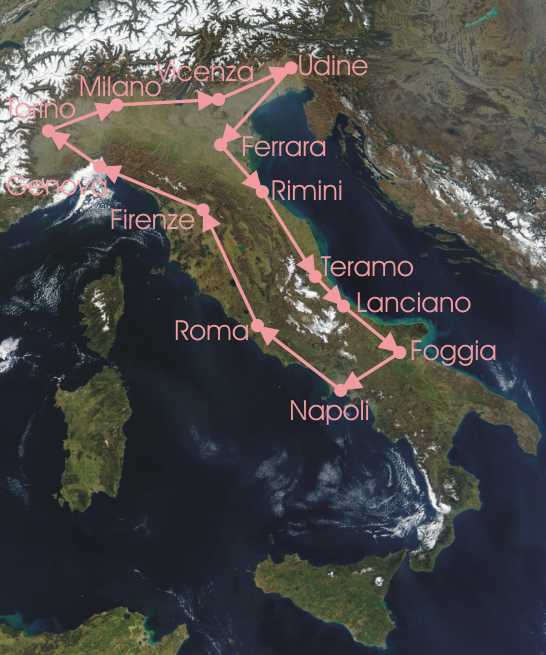 Map of Italy highlighting the stages of 1932 Giro d'Italia